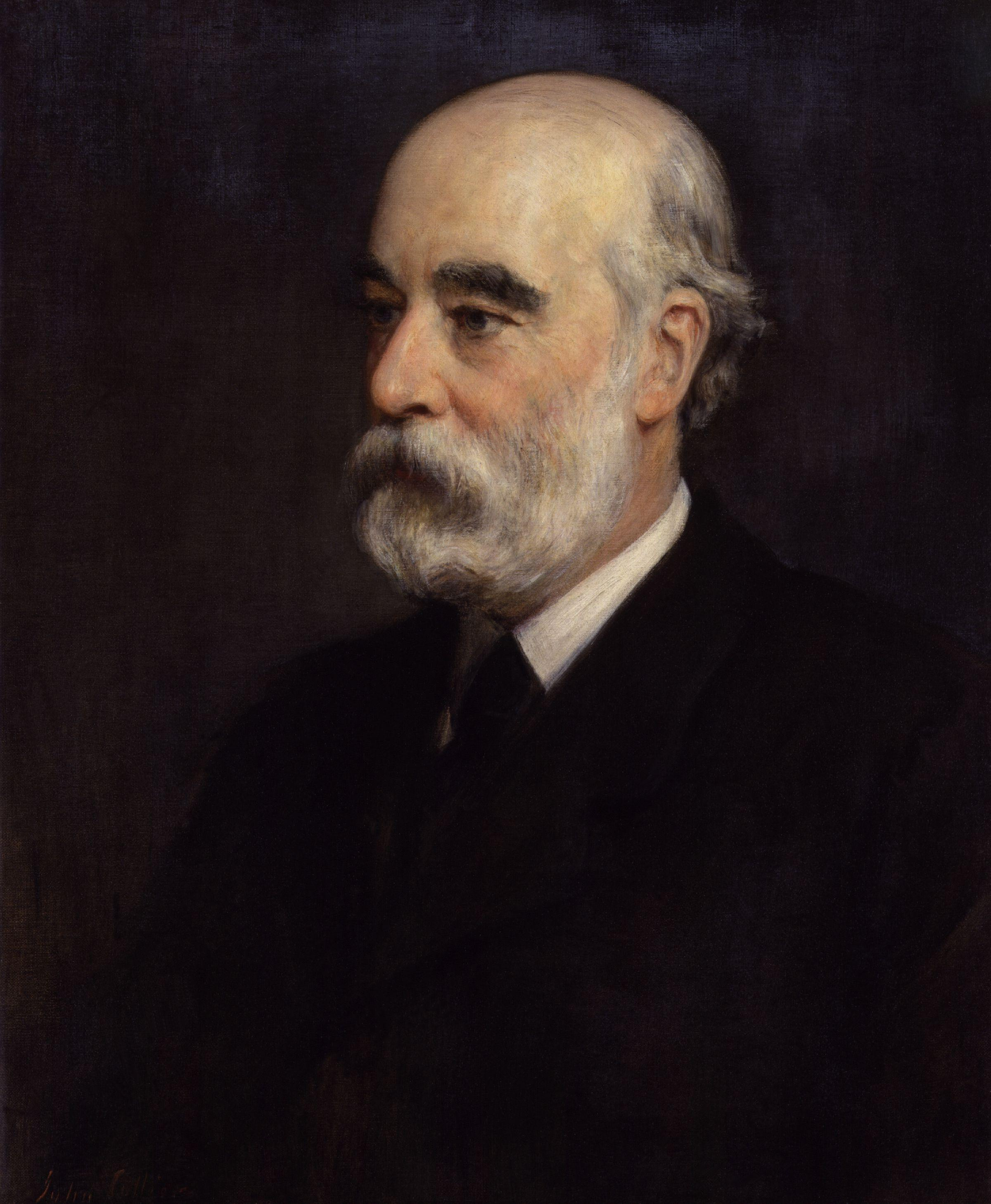 George Smith, by John Collier (died 1934), given to the National Portrait Gallery, London in 1911. All images in this batch have been confirmed as author died before 1939 according to the official death date listed by the NPG.